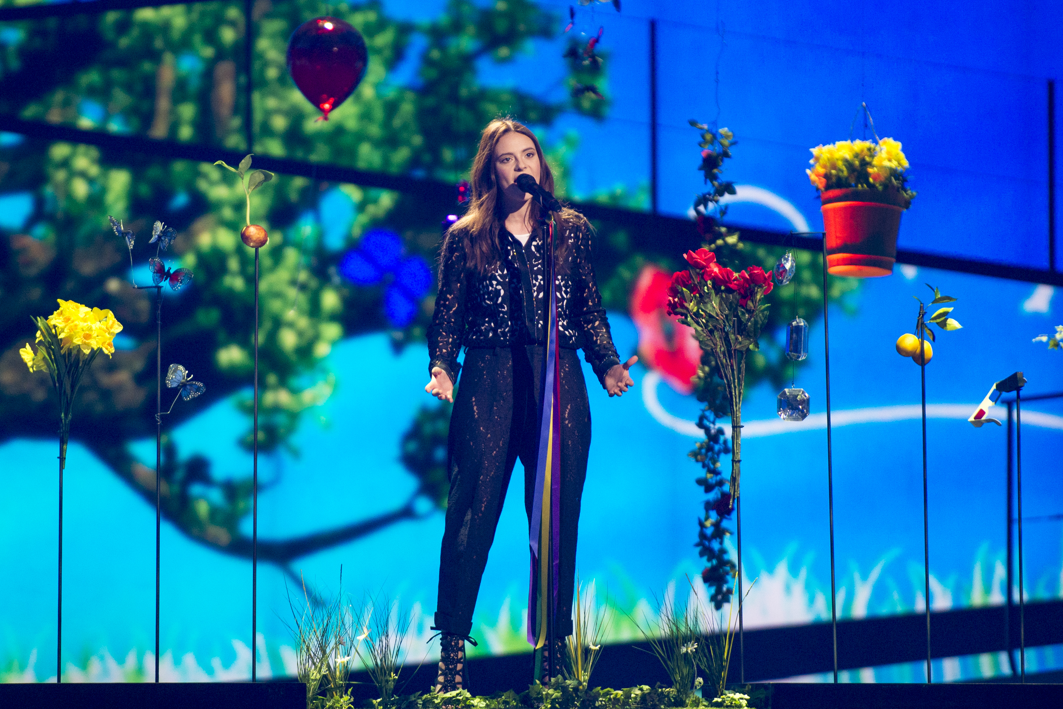 Francesca Michielin representing Italy with the song "No Degree Of Separation" during a rehearsal for "the Big Five" in the Eurovision Song Contest 2016 in Stockholm. (Help translate this text)